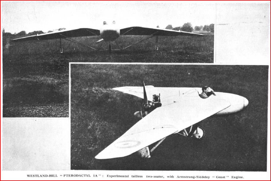 Westland Pterodactyl 2 photo montage